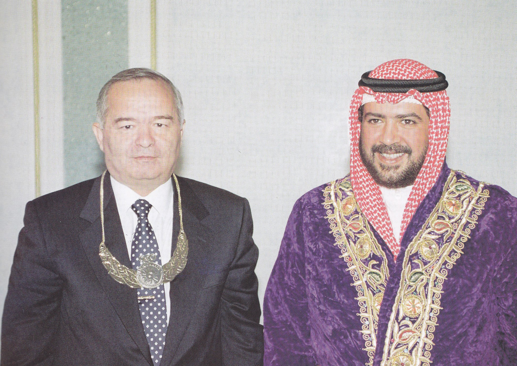 Saboh and Karimov